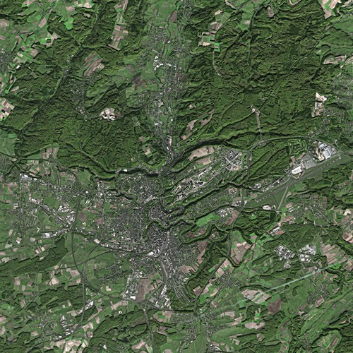 Luxembourg by SPOT Satellite